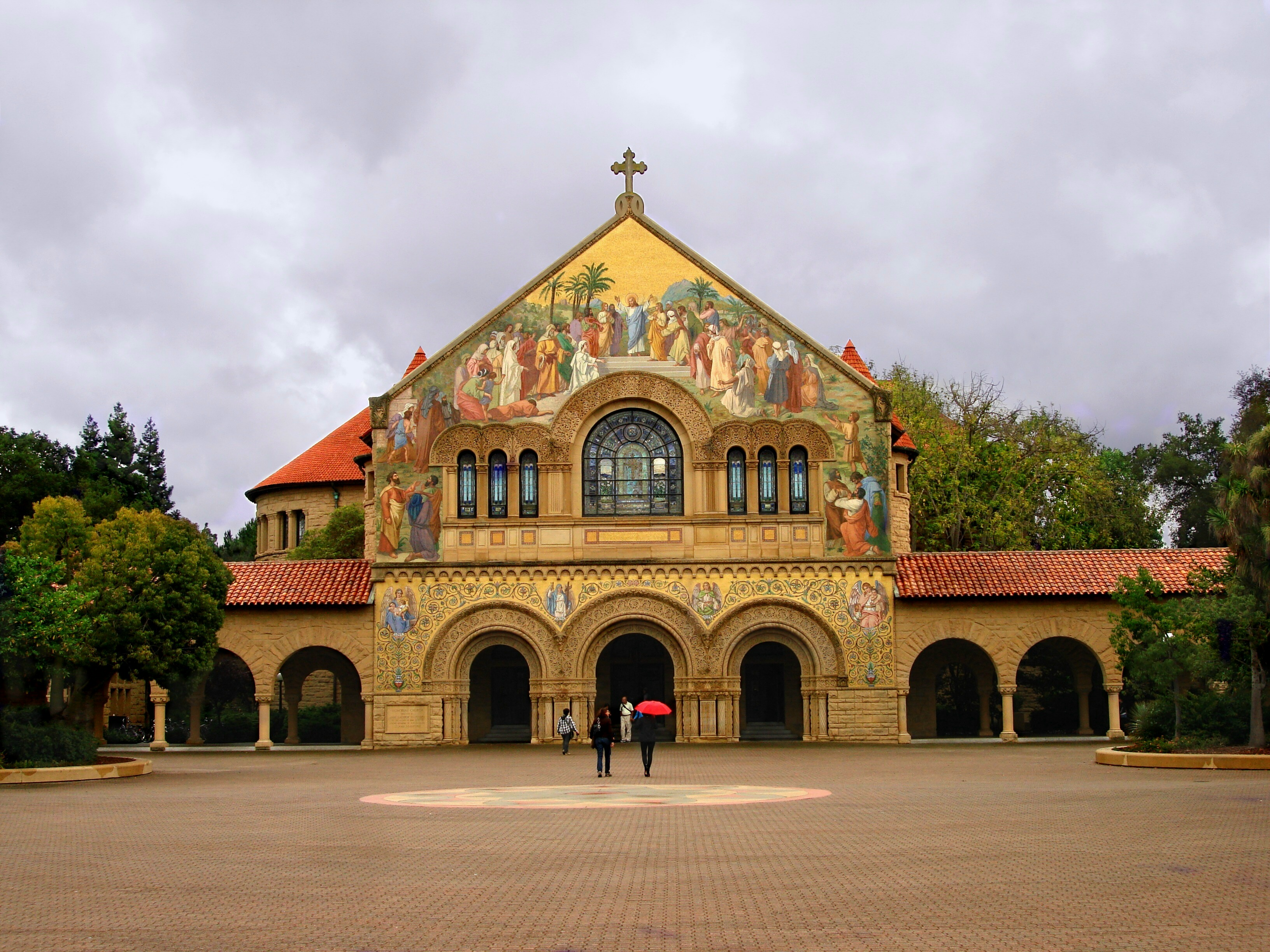 Stanford University - Memorial Church, Palo Alto CA USA